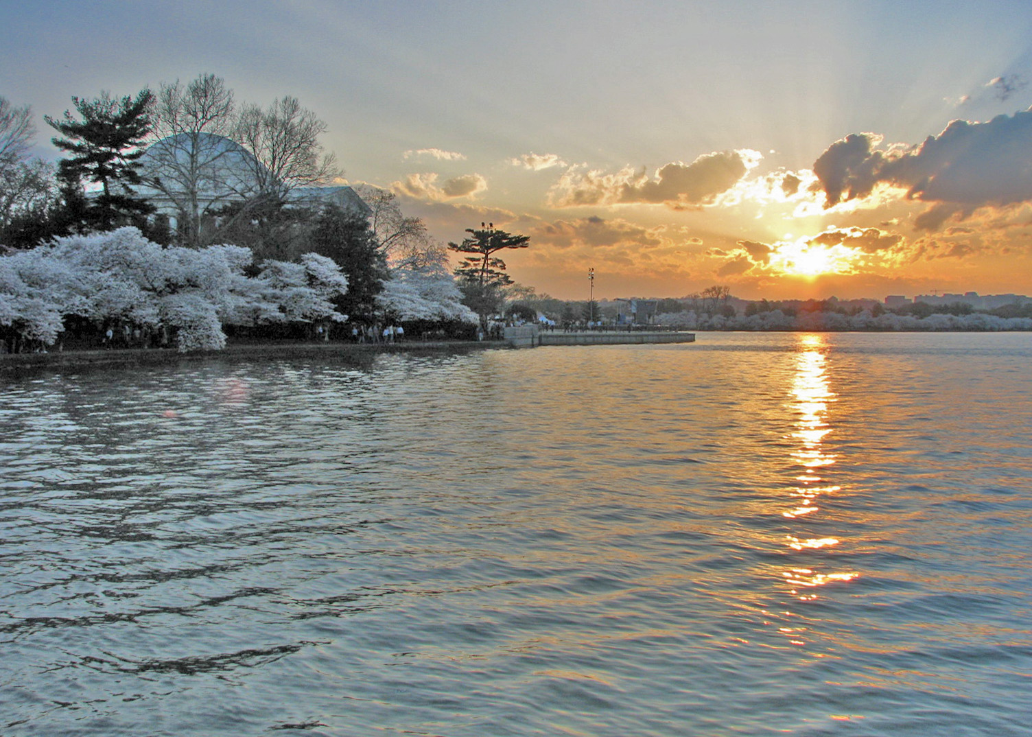 A sunset in Washington, D.C. as viewed from the Tidal Basin. The Jefferson Memorial is visible behind the trees.